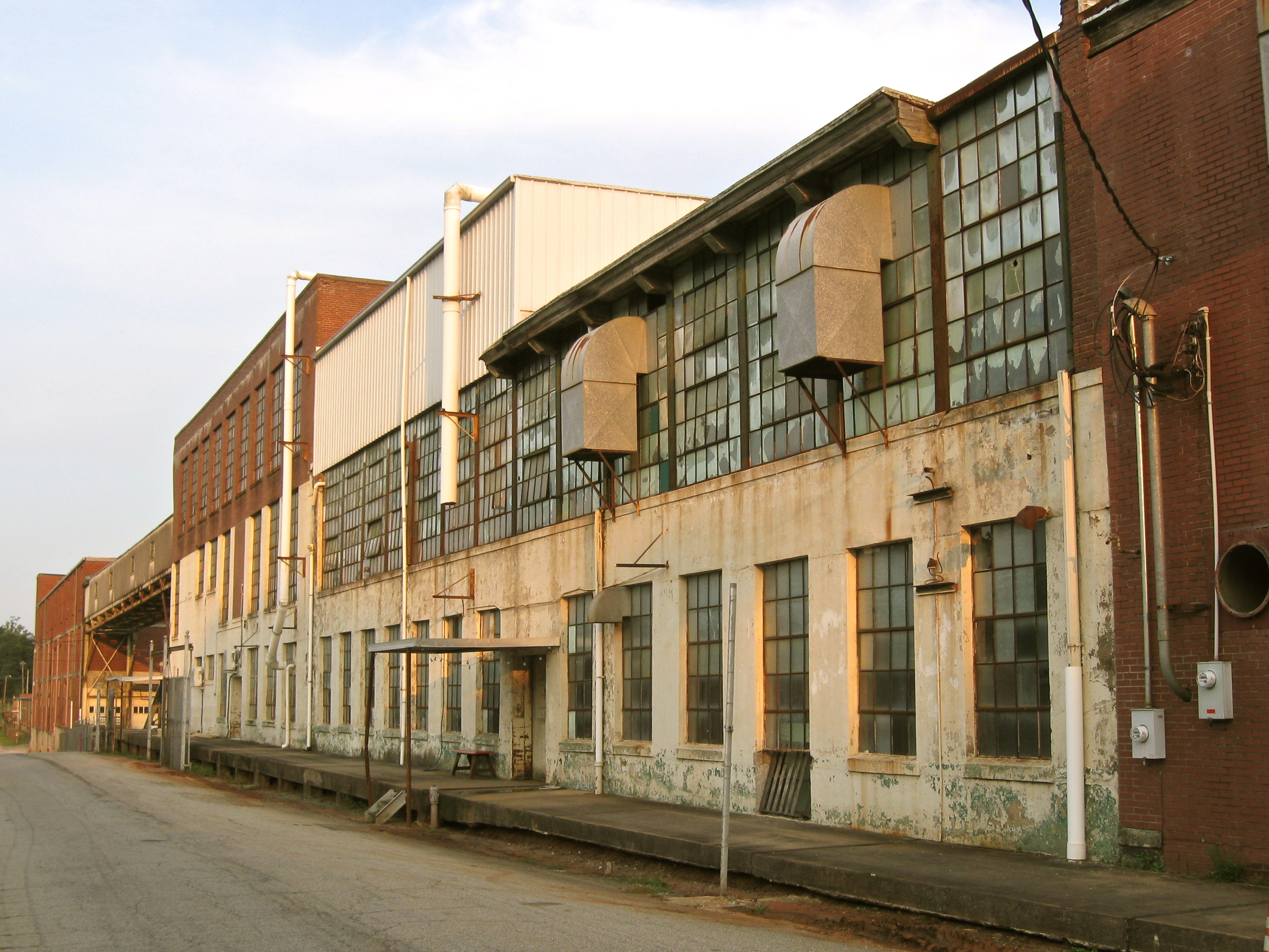 Southern Bleachery and Print Works, Taylors, South Carolina, USA; listed on the National Register of Historic Places in Greenville County, South Carolina